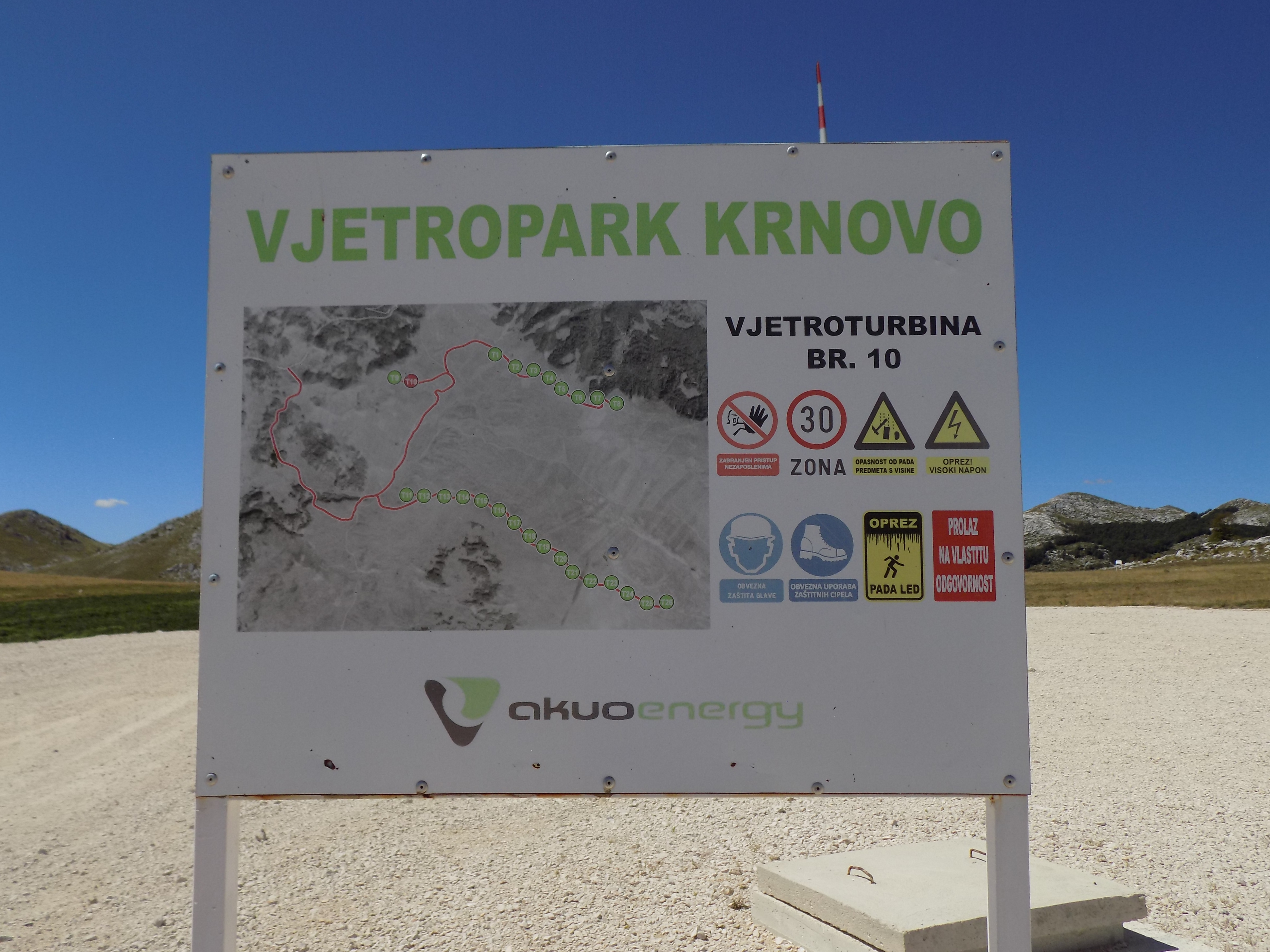 Krnovo Wind farm, Montenegro